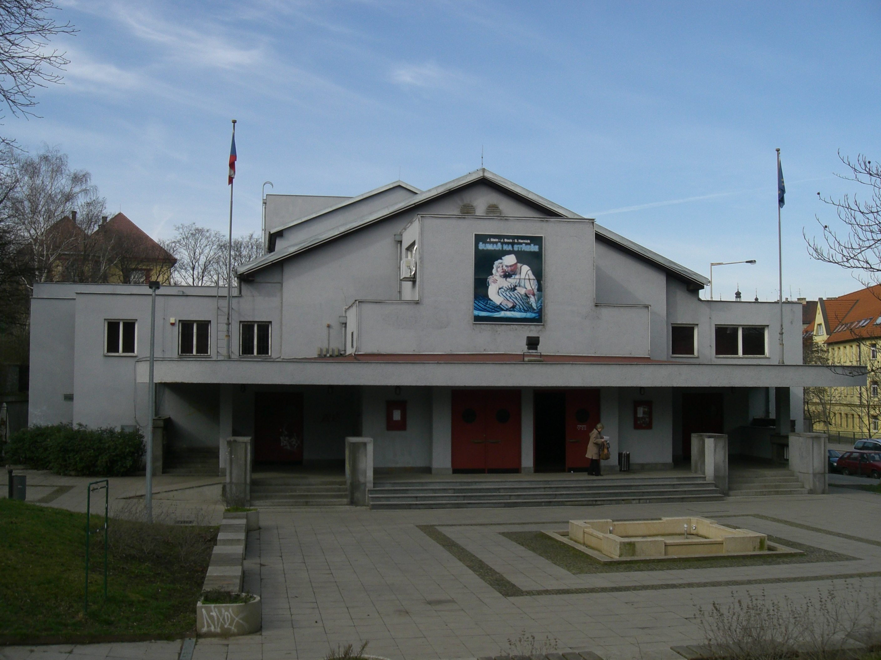 Theatre Na Fidlovačce in Prague in March 2007